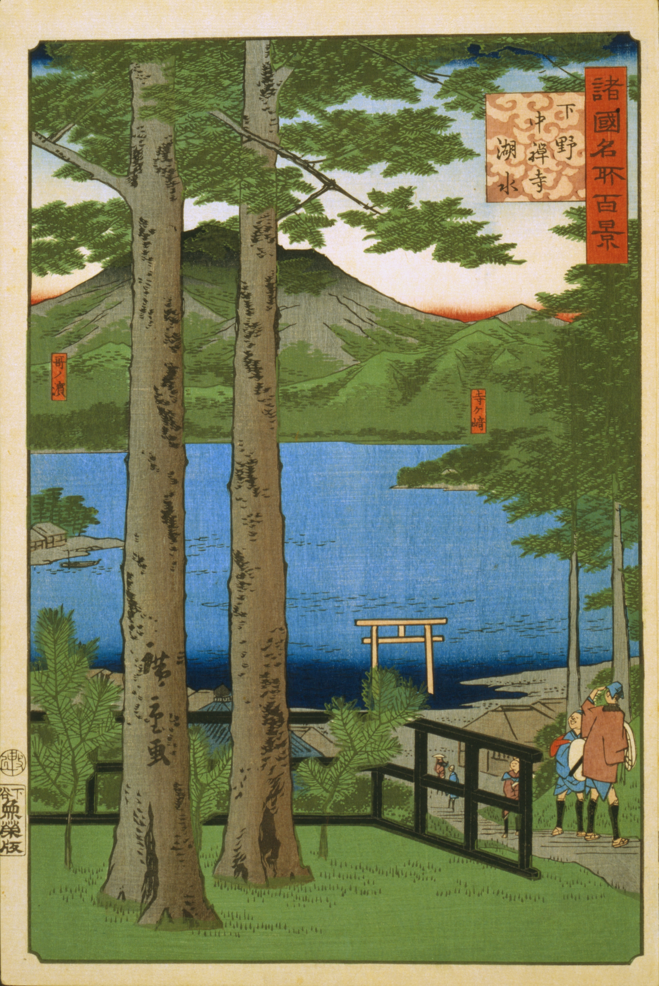 Shimotsuke chūzenji kosui (Japanese: 下野中禅寺湖水, "Chuzenji Lake in Shimozuke Province"). Print shows a view of Chūzenji Lake with evergreen trees, a village, a torii, and people in the foreground and mountains in the background. From the series 諸国名所百景 Shokoku meisho hyakkei, "One hundred famous views of Japan".